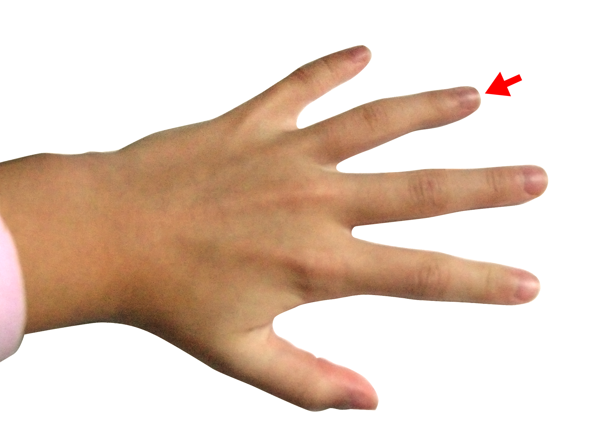 My own work,but it's a different camera.